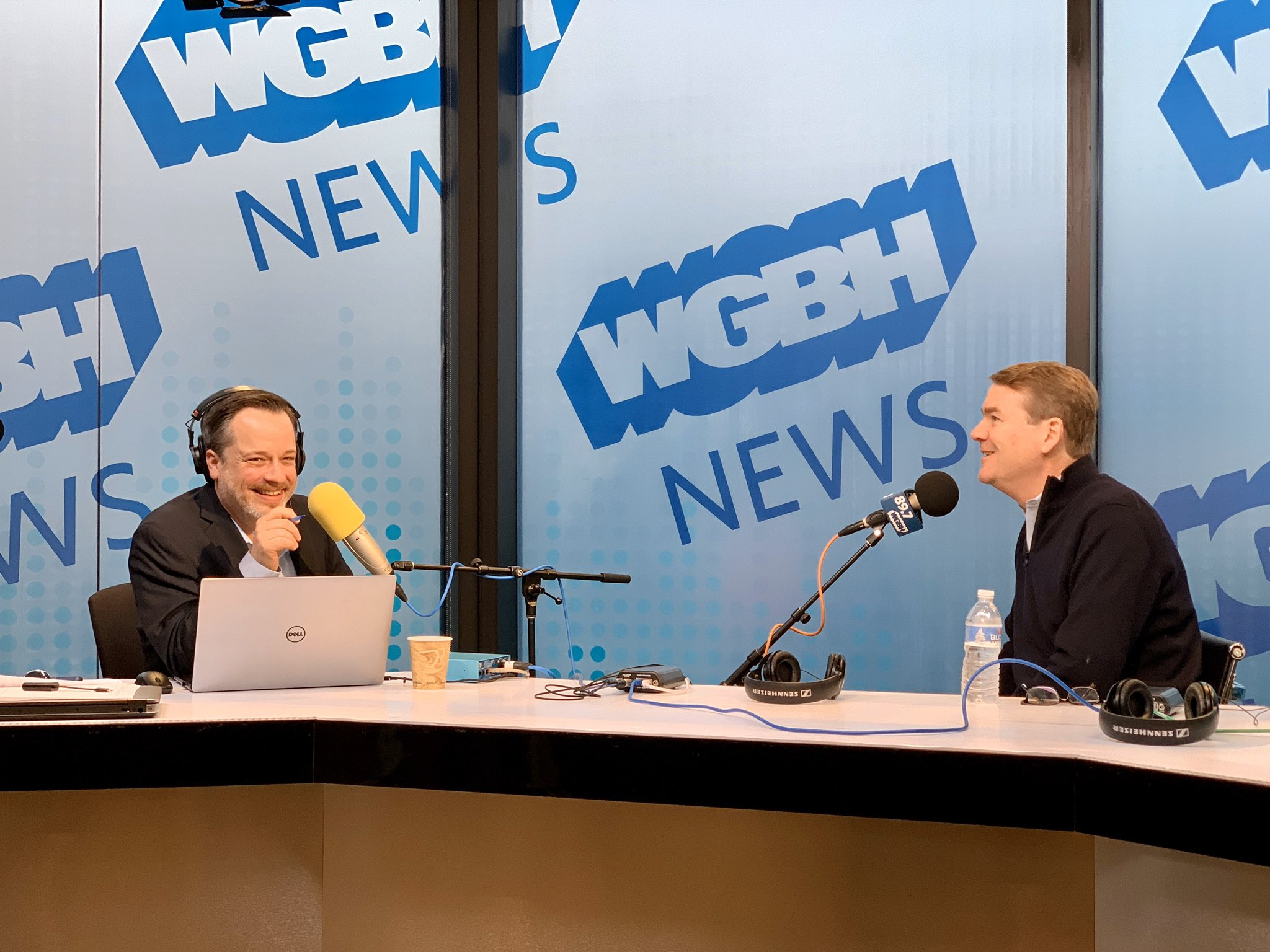 Scarfed down a breakfast sandwich and ran to the set so I wouldn’t miss this interview with @GBHJoe. We’re live now on @wgbhnews talking about health care, the economy, and #NHPrimary2020.